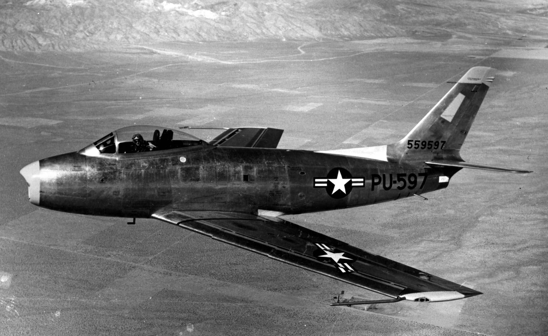 The first U.S. Air Force North American XP-86 Sabre (s/n 45-59597) in flight. It made its first flight on 1 October 1947.